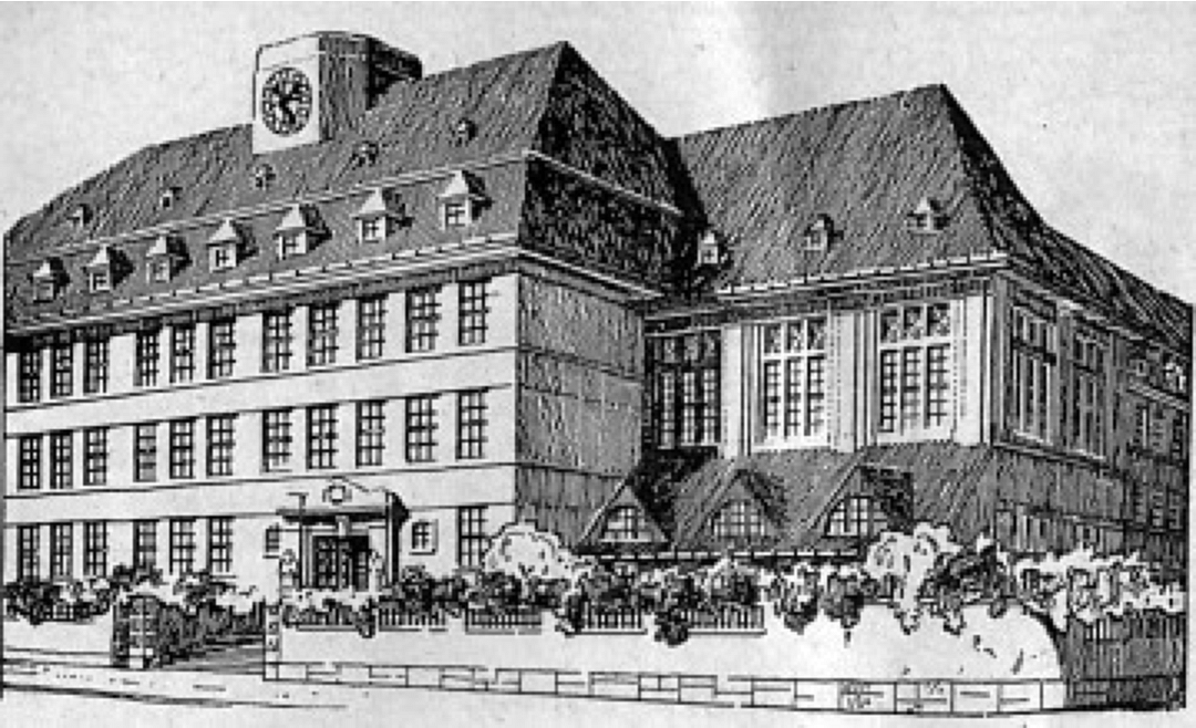 Undated drawing of Helmholtzschule, Frankfurt am Main, Hesse, Germany – Situation as of 1920s – 1930s, partly destroyed in WWII (1943)